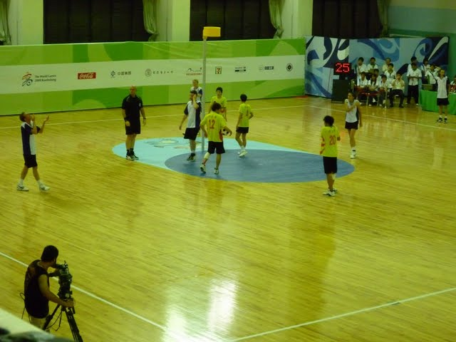 Korfball Bronze Medal Match, between Chinese Taipei and Russia. The World Games 2009 Kaohsiung